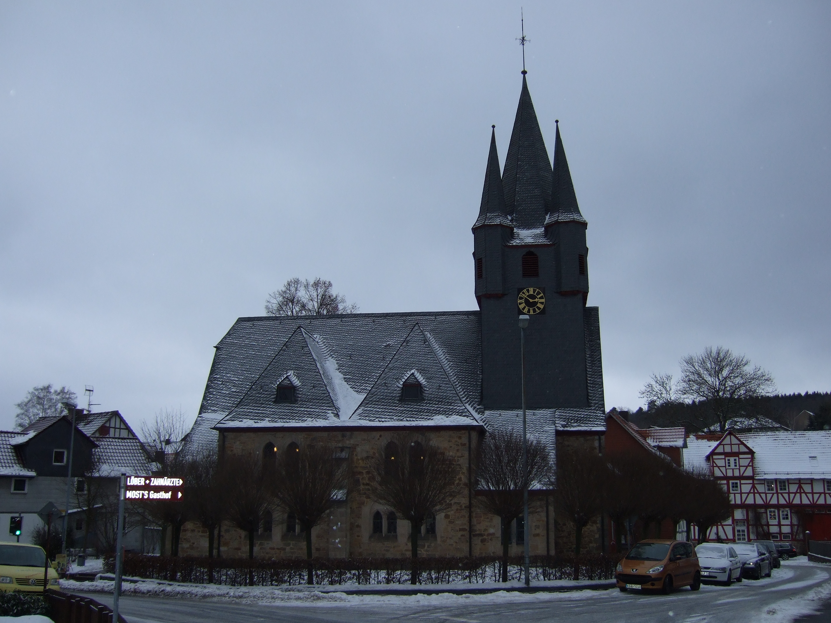 Church Söhrewald-Wellerode